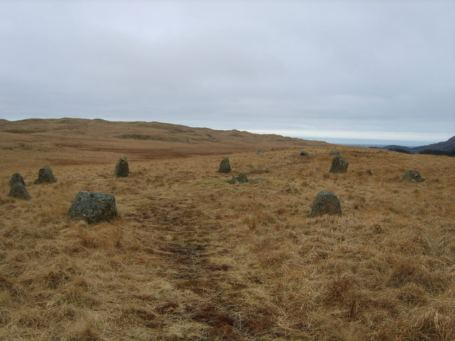 Stone Circles On White Moss. There are several in the vicinity. Some were excavated many years ago. Human cremation remains and Deer Antlers were found in one. The centre of the circle has a Cairn which may have been for a burial.